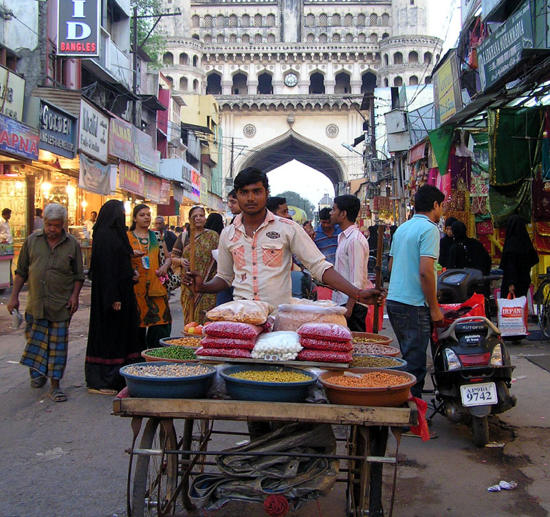 A street vendor selling his ware on a cart in Laad Bazaar, Hyderabad near Charminar